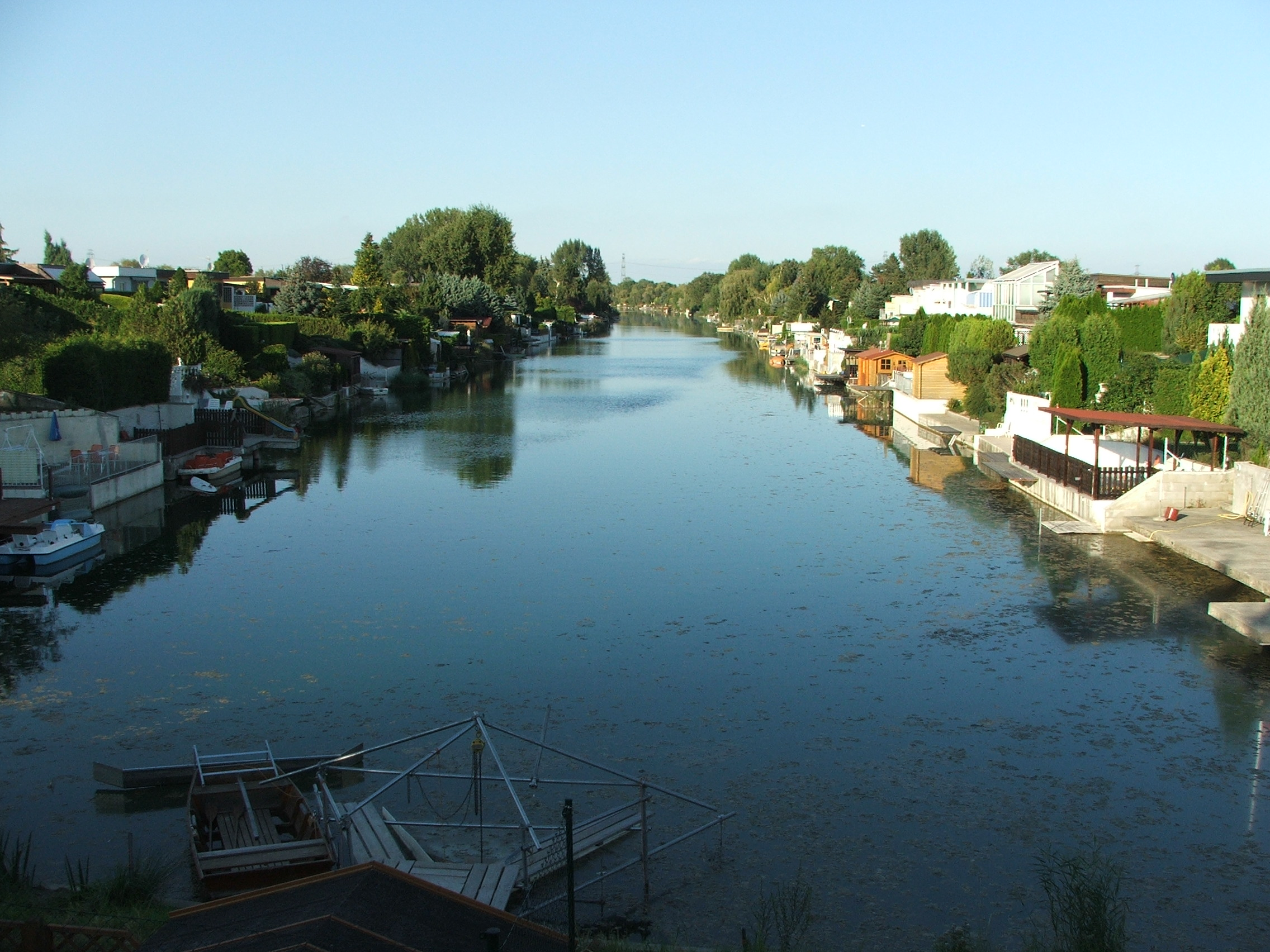 Completed part of canal Donau - Oder near Vienna